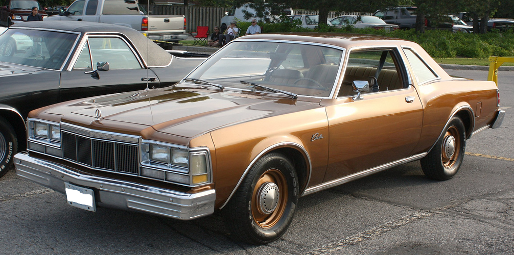 PLymouth Caravelle coupe; Canadian-spec, 1978